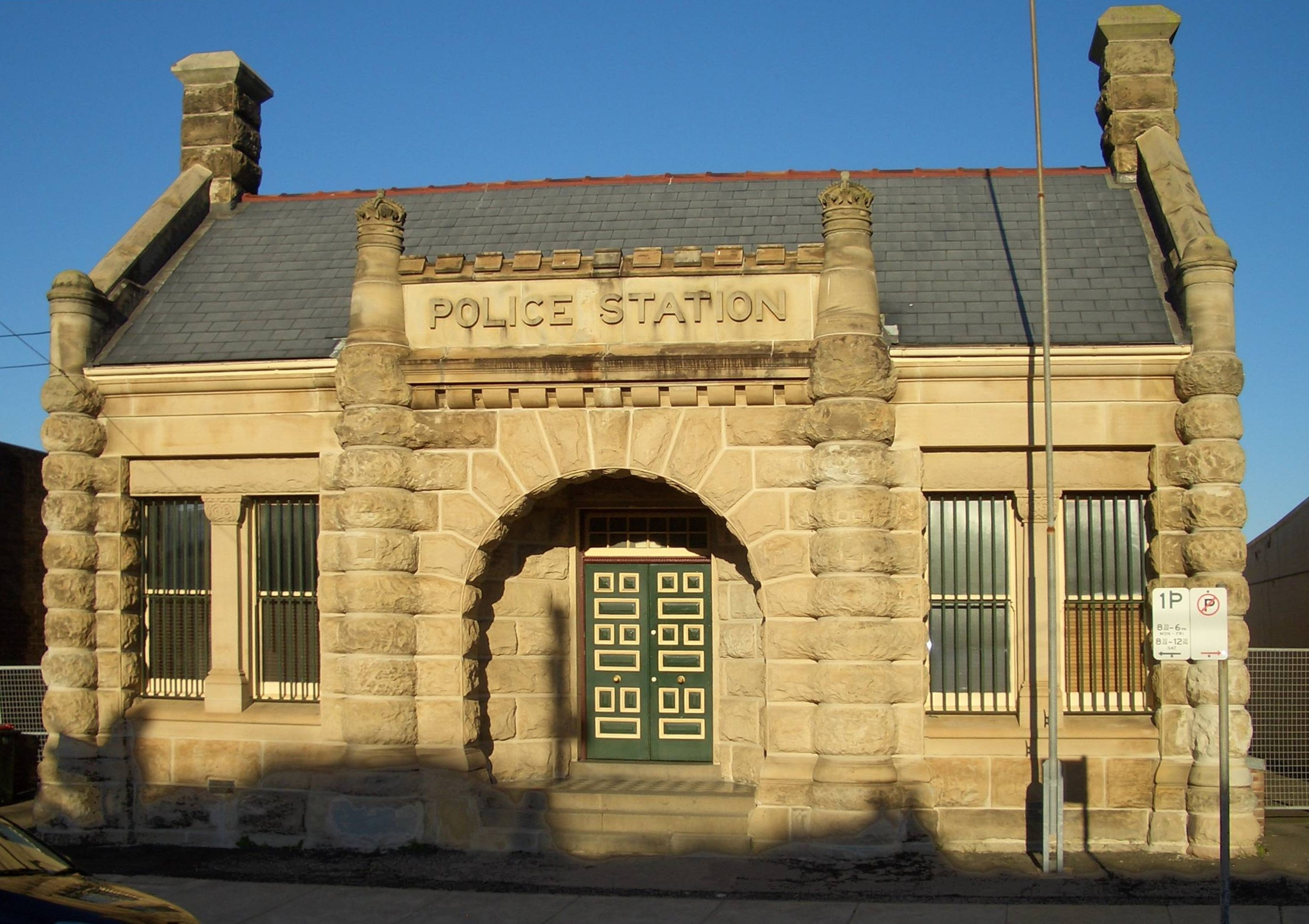 The photo shows the former Police Station in Gladstone Street, Marrickville. It has been the offices of the May Murray Neighbourhood Centre for around 6 years. (note added Peter_g100, 22 Jan 2007)